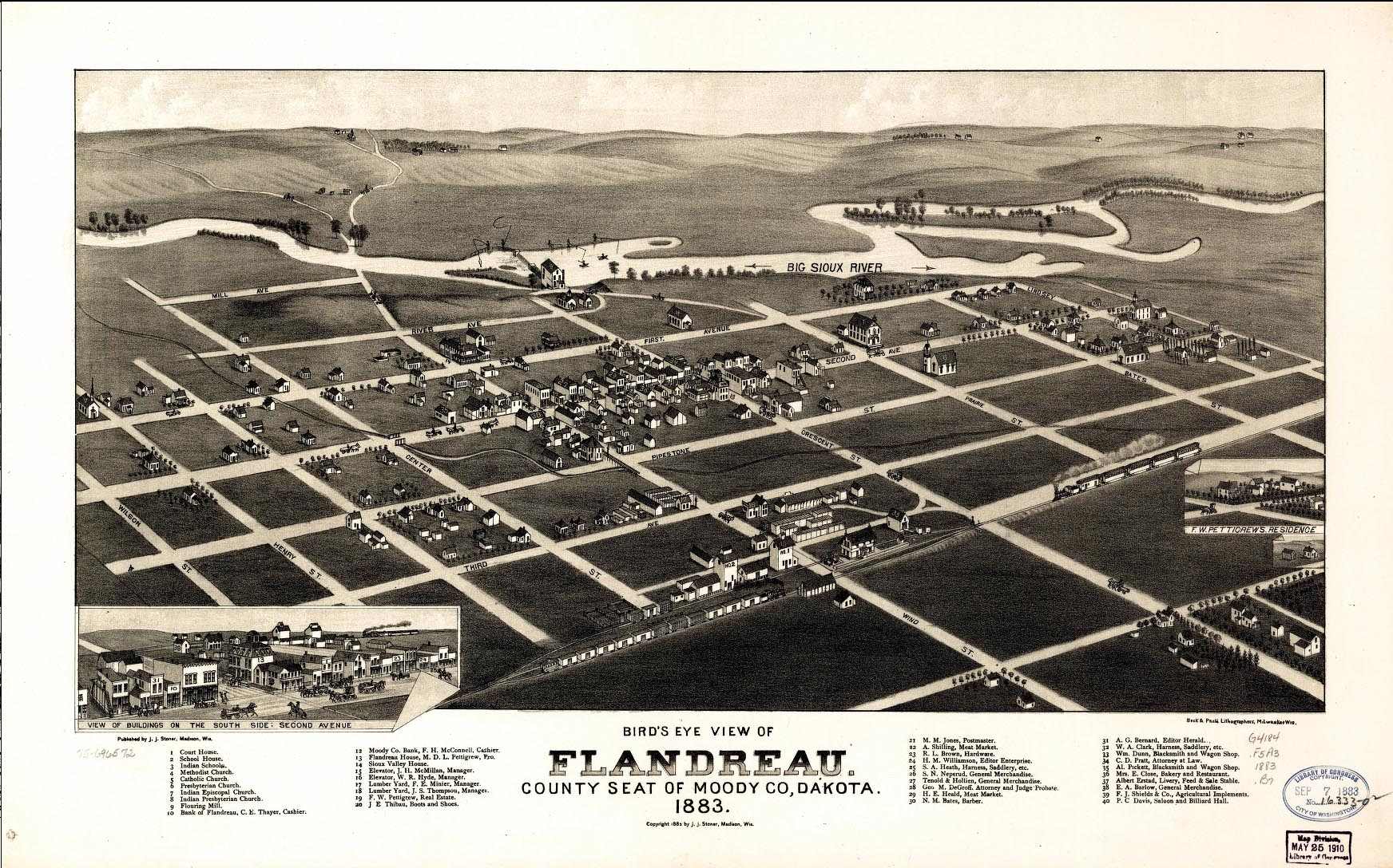 1883 bird's eye illustration of Clark, South Dakota, USA.